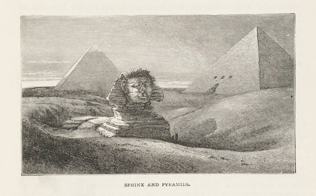 The Sphinx, with sand cleared away and two pyramids visible, on either side of its head.